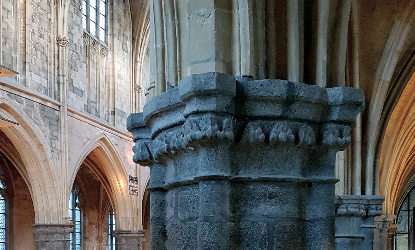 View of the nave of the former Minorite Church (Oude Minderbroederskerk) in Maastricht, the Netherlands. The church was the oldest of three Franciscan or Minorite churches in Maastricht and is now in use as the city's and regions' archives (RHC Limburg).